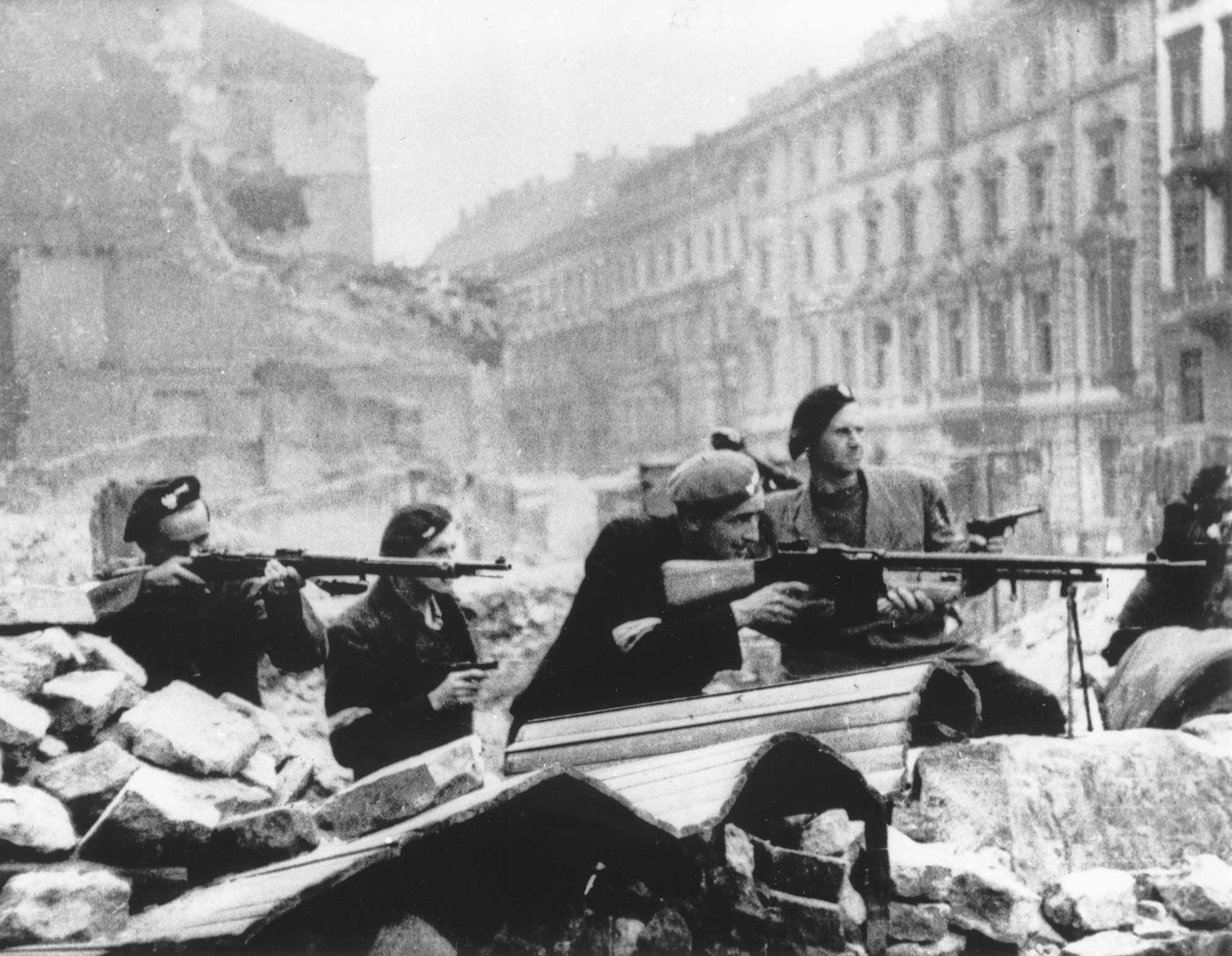 Warsaw Uprising: Bariccade on intersection of Świętokrzyska and Mazowiecka Streets viewed from Napoleon Square.